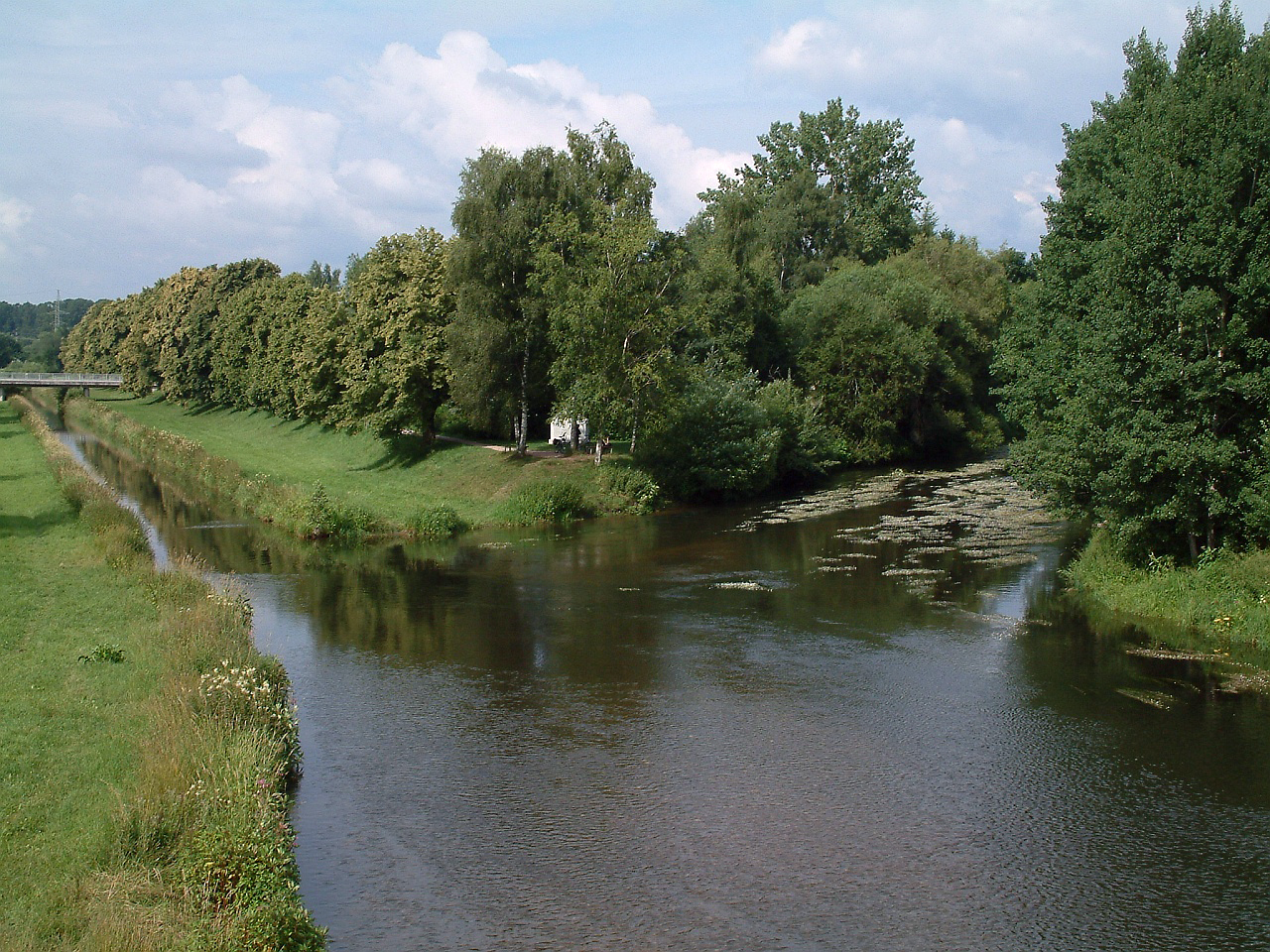 The place where Danube originates in Donaueschingen, Germany. The small river Breg and the stream Brigach unite into the river Danube. The German name of the place is "Donauzusammenfluss"